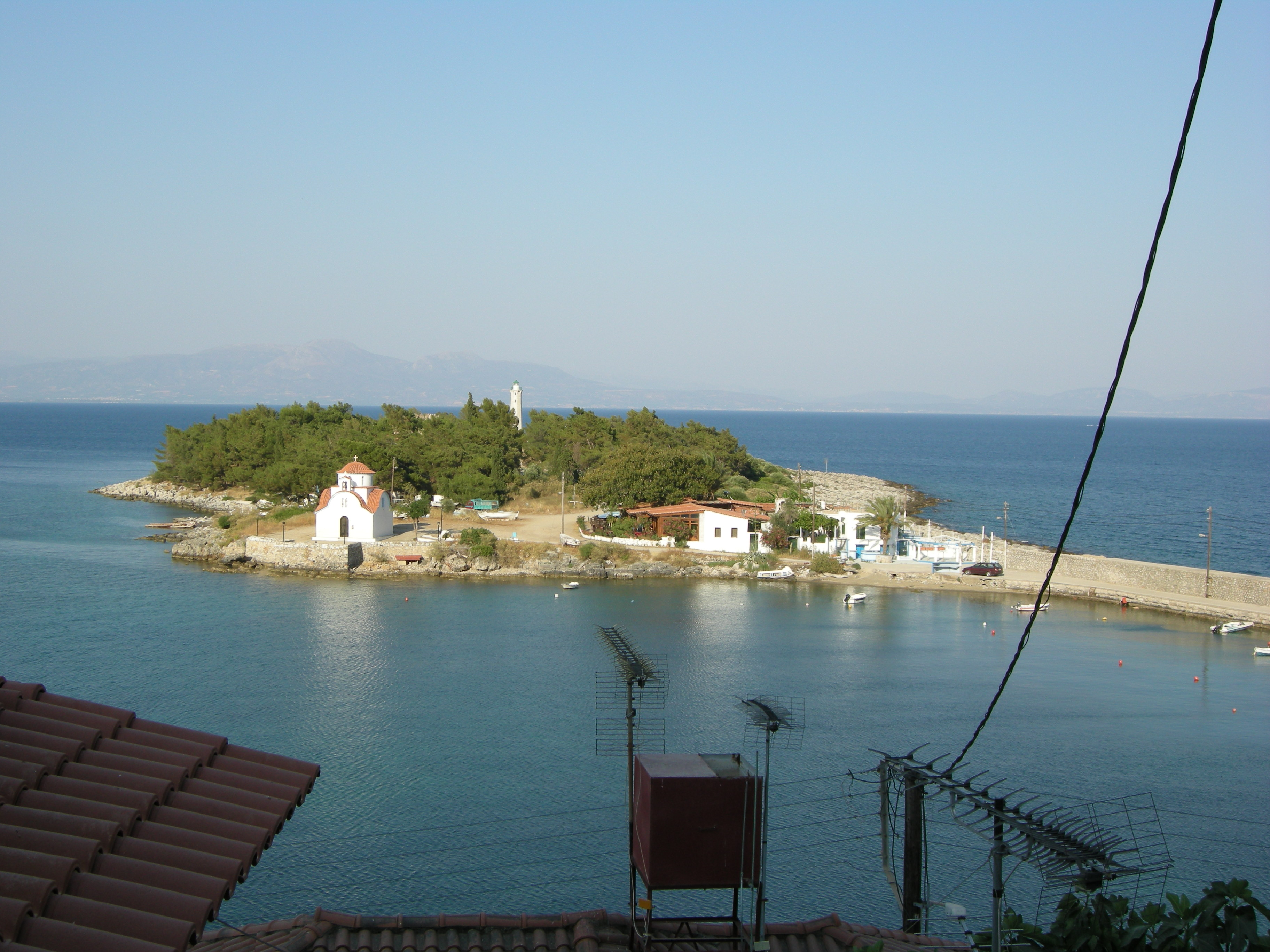 Gythios, island